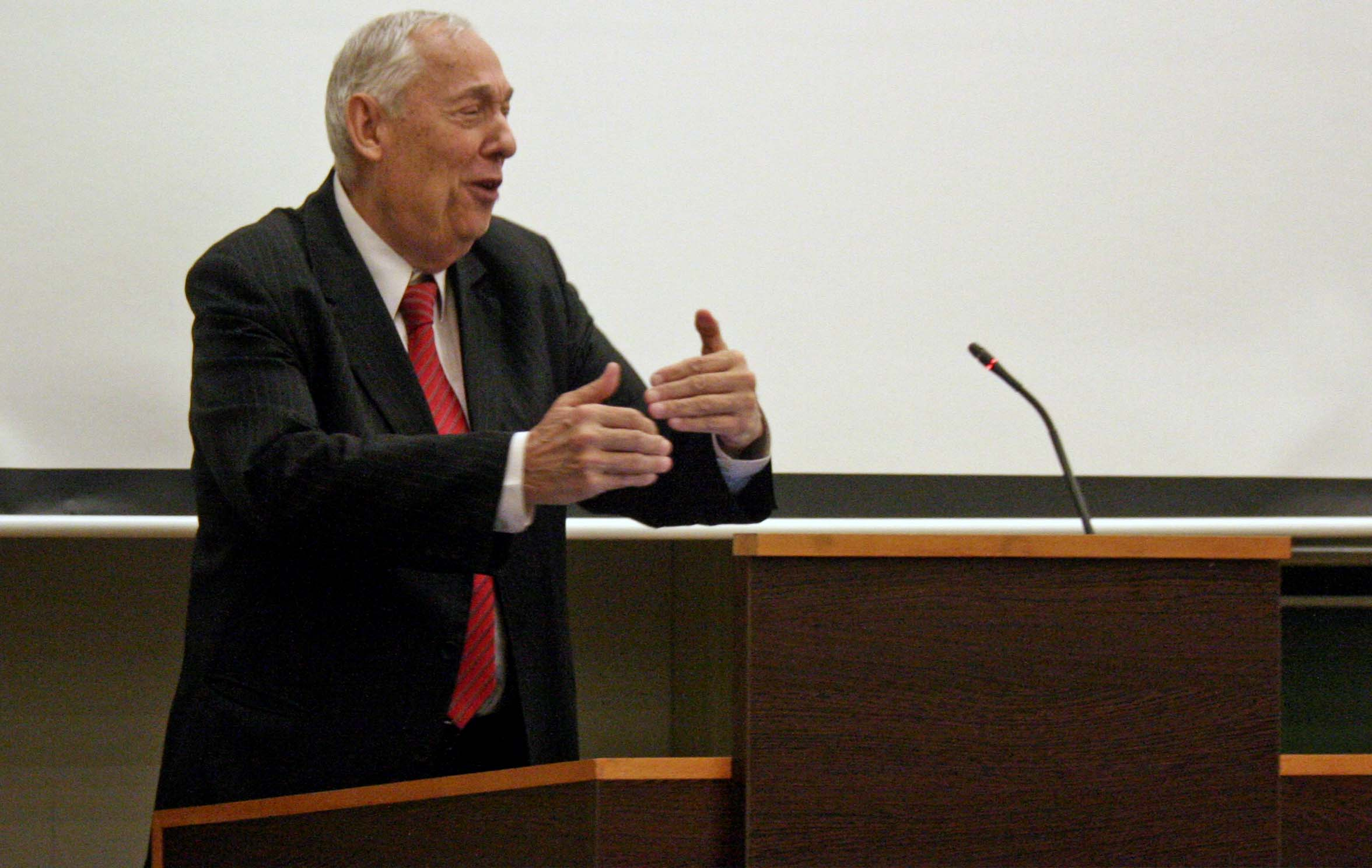 Prof Dr Thomas Sárközy, Hungarian economist - in Corvinus University of Budapest 2014